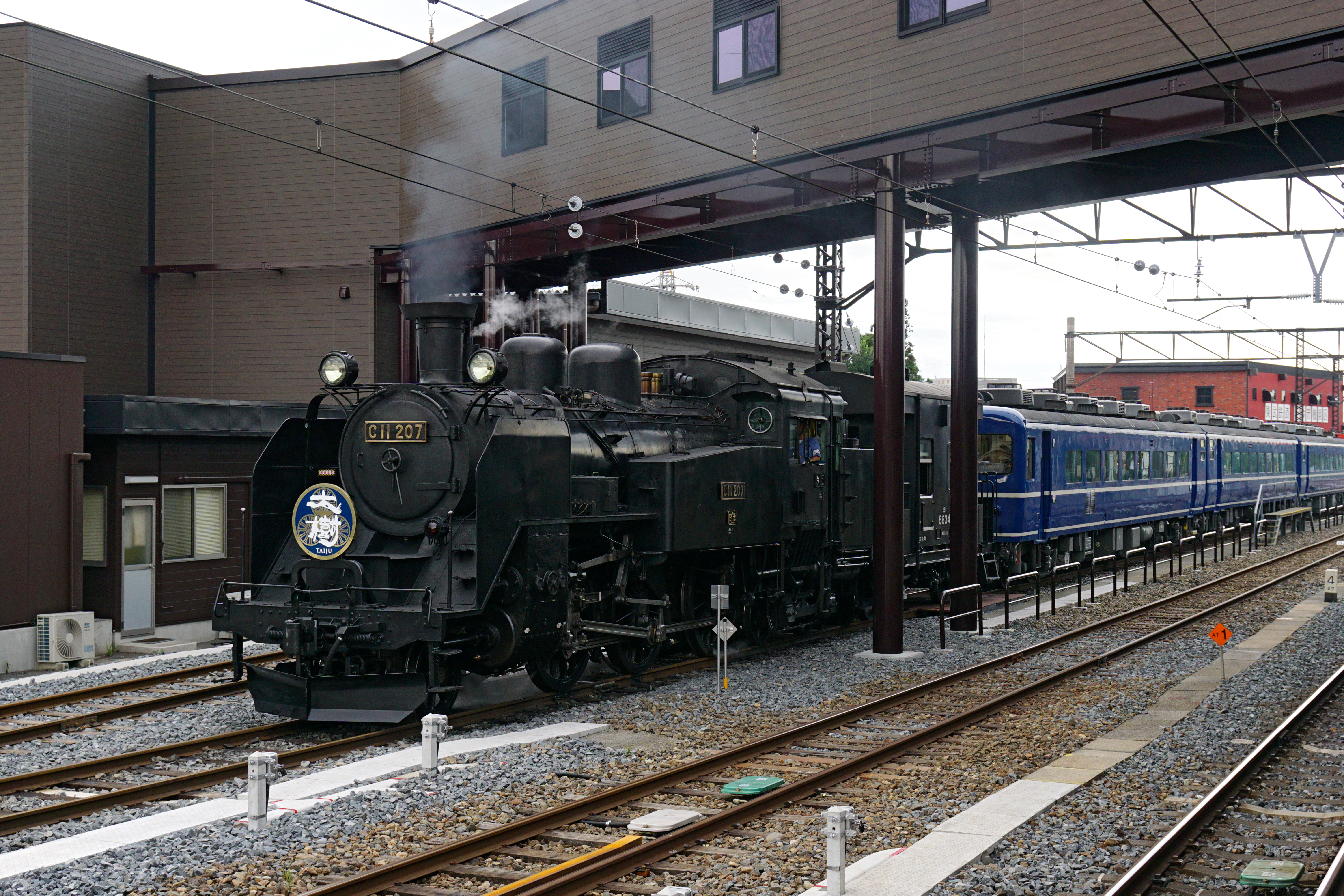 Shimo-Imaichi Station in Nikko, Tochigi prefecture, Japan